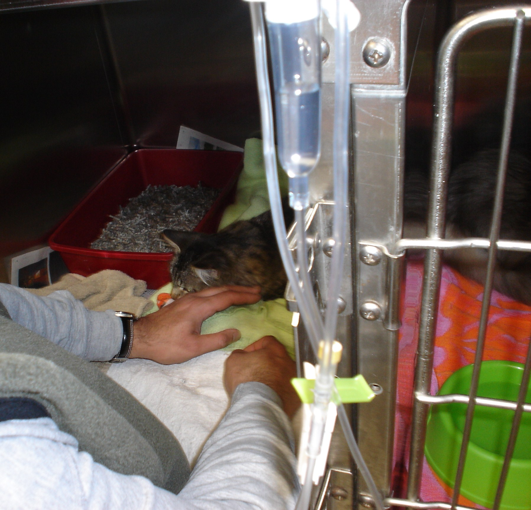 Photograph of cat after second surgery in three days. The first surgery was routine spaying; the second (more major) had to be performed after the patient "escaped" from her hospital "bed" during an examination, jumped up on some hanging rafters, then slipped off them (likely because she was panicking and her claws had just been clipped as a routine accompaniment to spaying), and managed to get stuck in the space between two walls. Upon being found the next day, she was in serious condition: the sutured incision from the spaying had re-opened and there was dust everywhere inside (and rampant infection), as well as some herniation. At the moment of this upload, the patient is in stable condition. Picture shows patient being attended to. Antibiotics and morphine are delivered by intravenous drip. Attached toilet (shown in red plastic) and food (not shown) are available round the clock.